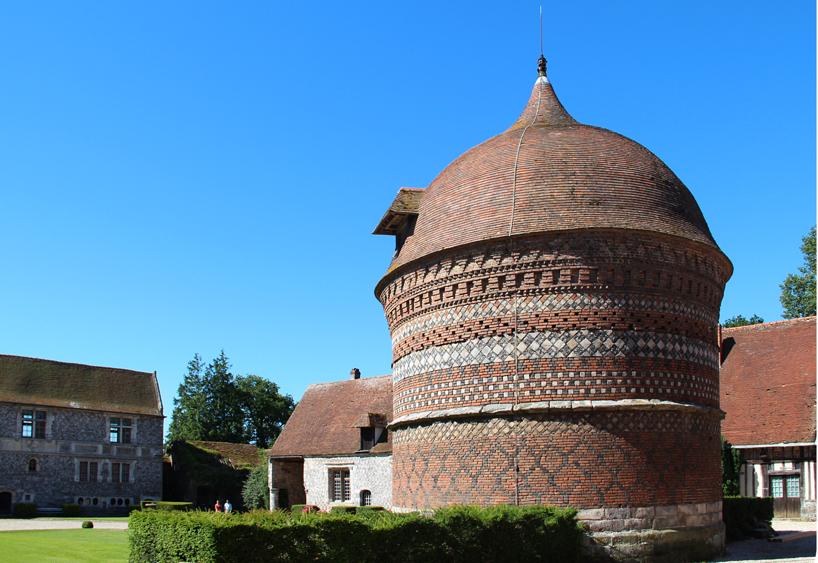 Varengeville-sur-Mer (Seine-Maritime - France), courtyard and dovecote of the manor of Ango (1532).